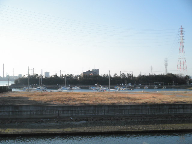 Ae fishing port